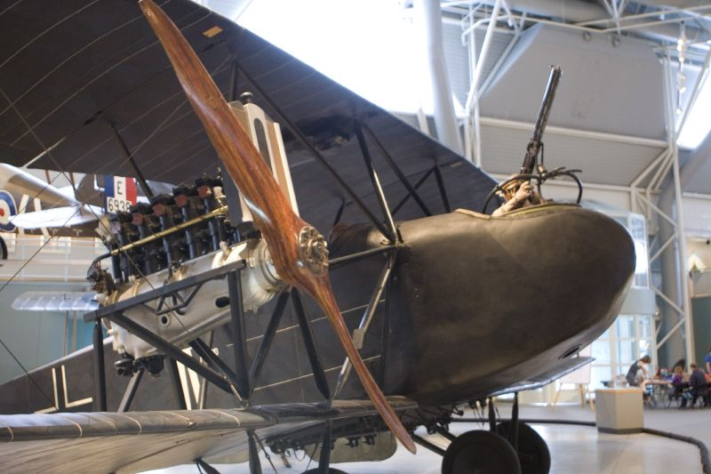 The AEG G.IV on display at Canada Aviation and Space Museum, Ottawa.